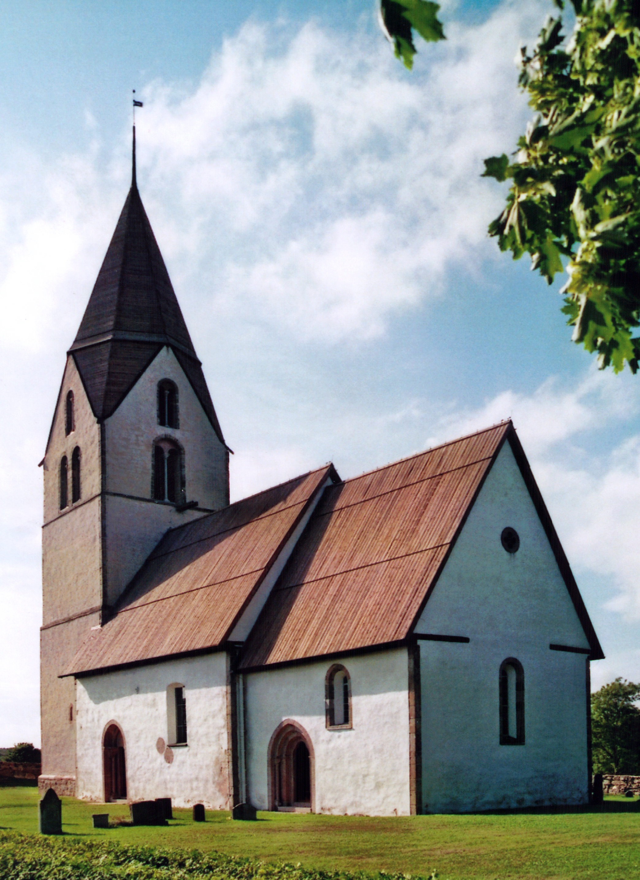 Church of Sundre, southern Gotland, Sweden